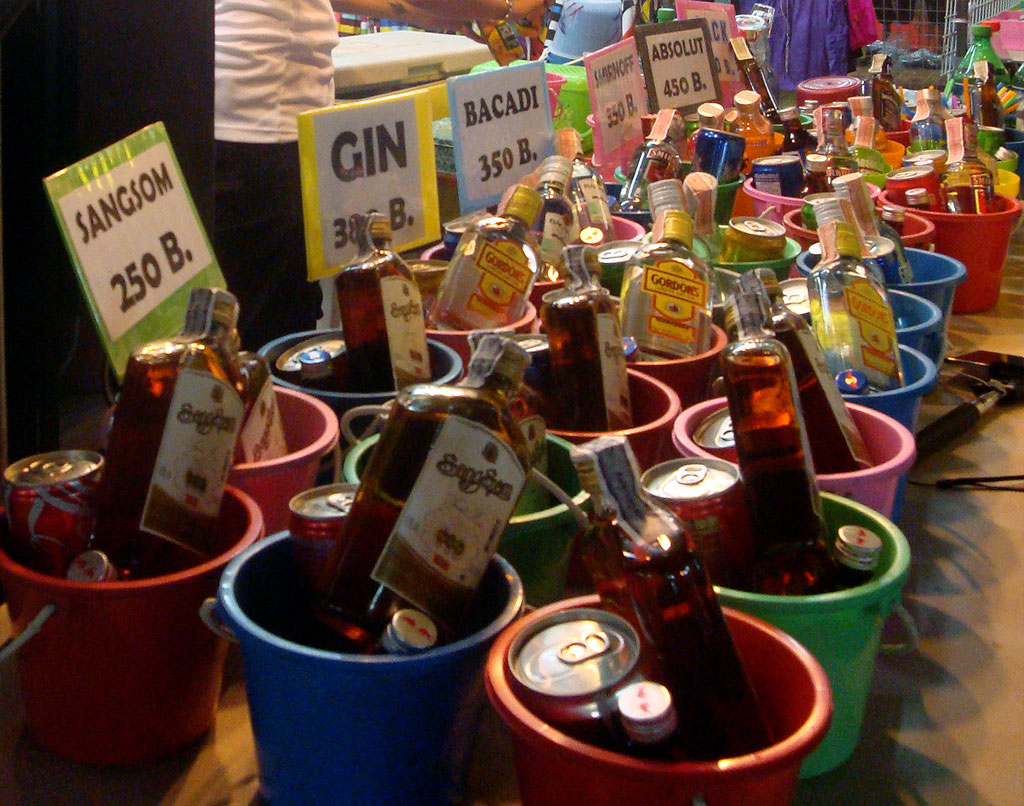 So-called “buckets” for sale at Full Moon Party, Koh Phangan, March 2015.